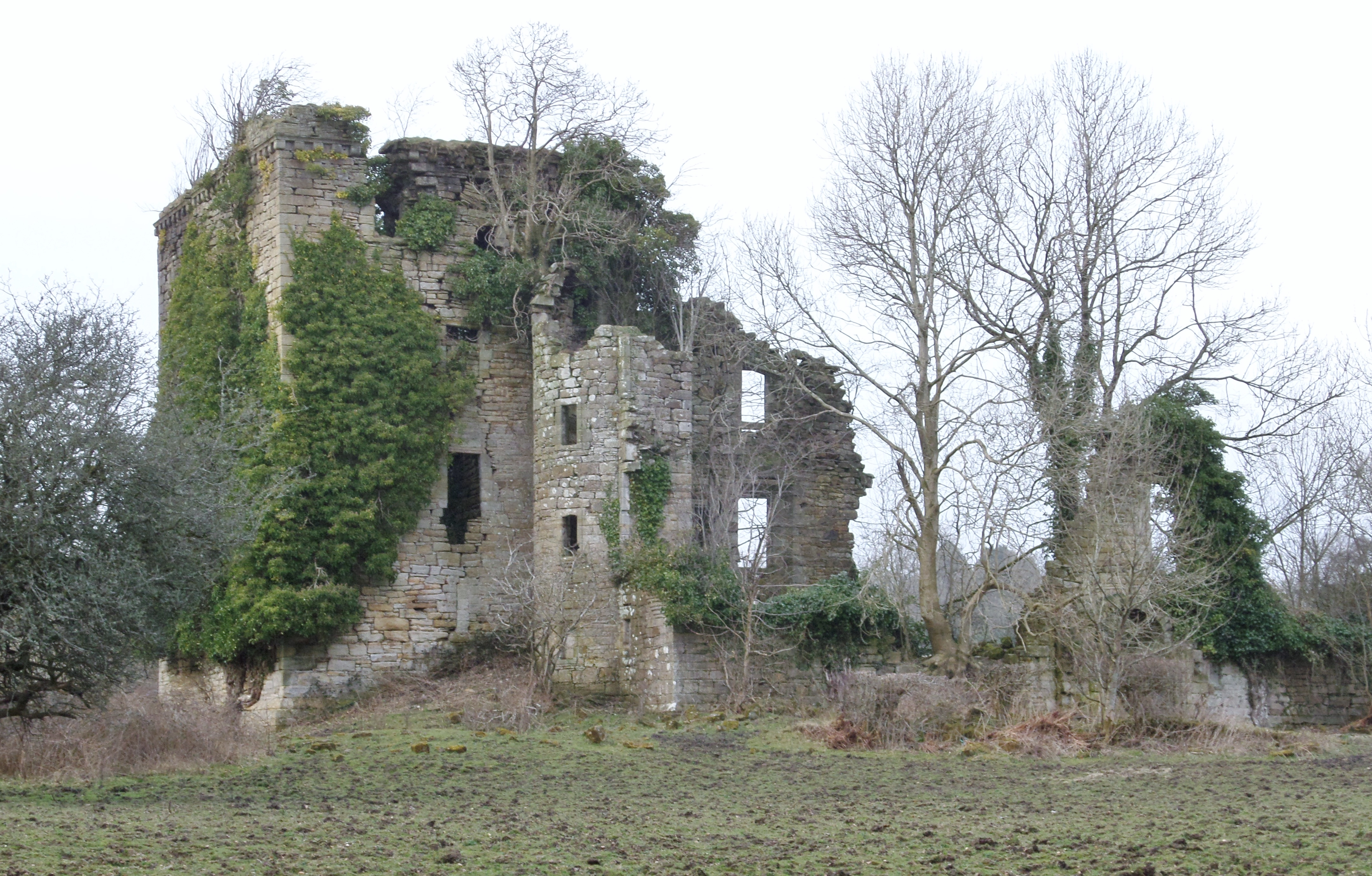 Kilbirnie Place - viewed from the south, North Ayrshire, Scotland.